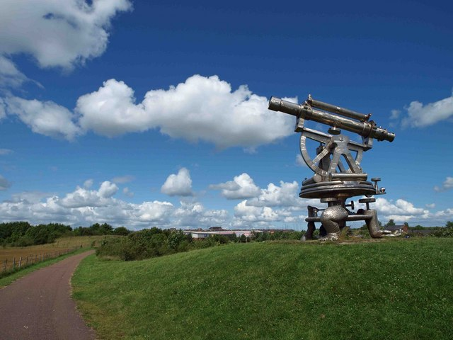 Terris Novalis stainless steel sculpture of a theodolite alongside the C2C trail The C2C trail between Whitehaven and Sunderland. From SusTerris Novalis by Tony Cragg This work consists of two measuring instruments; a theodolite and an engineer's level, faithfully reproduced an incredible twenty times life size, standing approximately six metres tall. Made from stainless steel and supported on animal feet, this awe inspiring work is visible for many miles and stands as a monument to the history of the area and a prominent mile marker for the C2C cycle route. The animal feet that hold these instruments aloft were inspired by symbolic heraldry found on shields, coats of arms, plaques and similar items associated with land and ownership. Included are a bird of prey, a horse lion, crocodile, cow and a primate's hand. Cast in solid stainless steel, from originals carved by Tony Cragg, these large feet are both beautiful and at the same time, daunting. The work sited at Consett, marks the watershed between the upland / moorland landscape and the extremes of the Industrial Age. Built on the Stanhope and Tyne Railway Line - the earliest commercial railway in Britain - Terris Novalis marks what was once Europe's largest steel works. Local people see this landmark as a monument to the scale of local industry and its demise - the tragedy that has followed. trans website